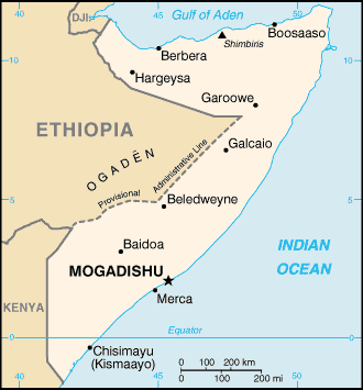 Map of Somalia, showing major towns.